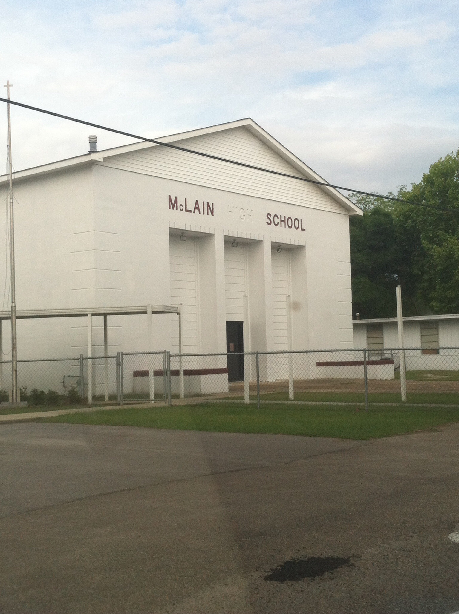 McLain High School - 300 Shows Street McLain, MS 39456